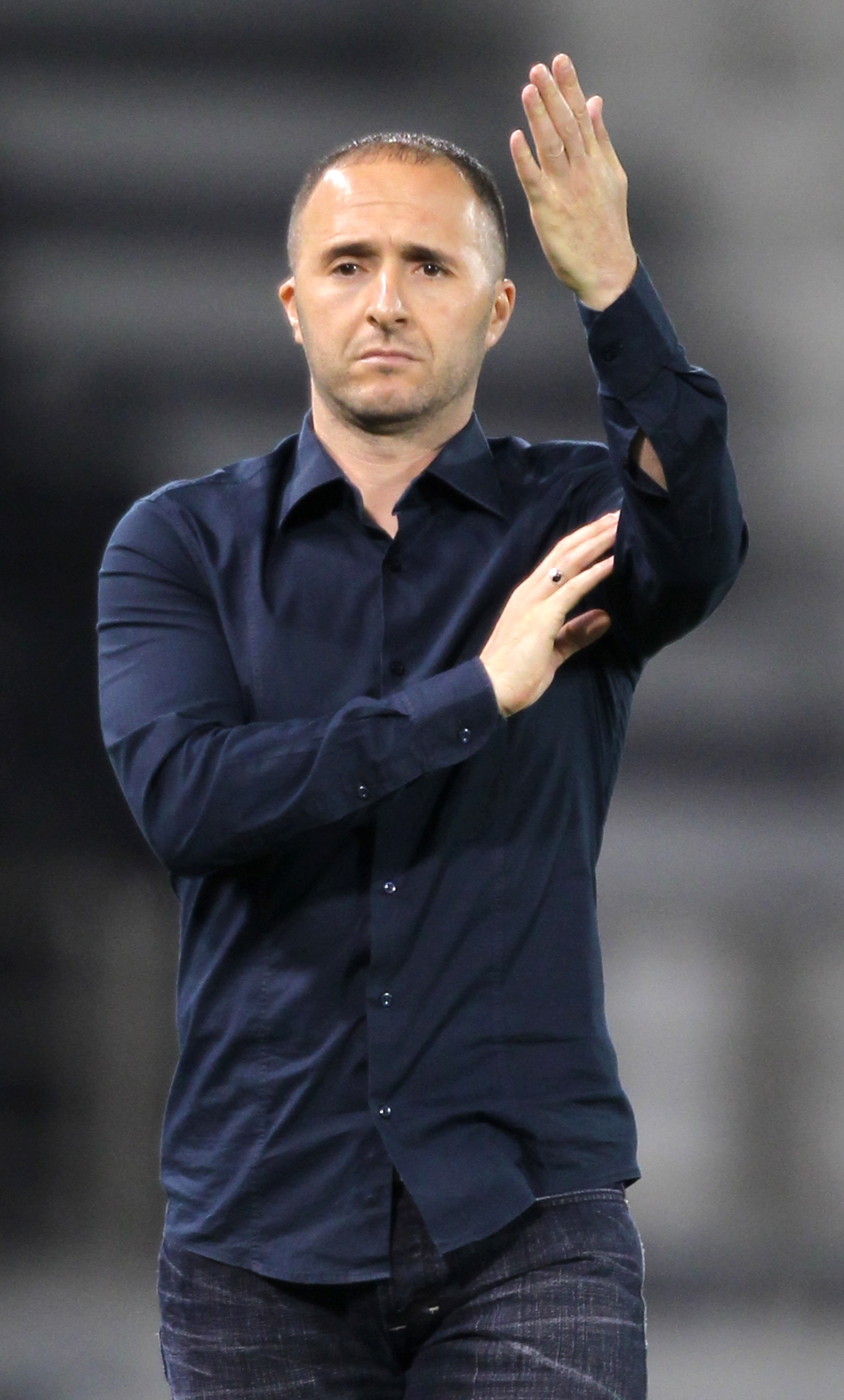 Lakhwiya's Algerian coach Djamel belmadi gestures during a Qatar Stars League match. Pic by Doha Stadium Plus